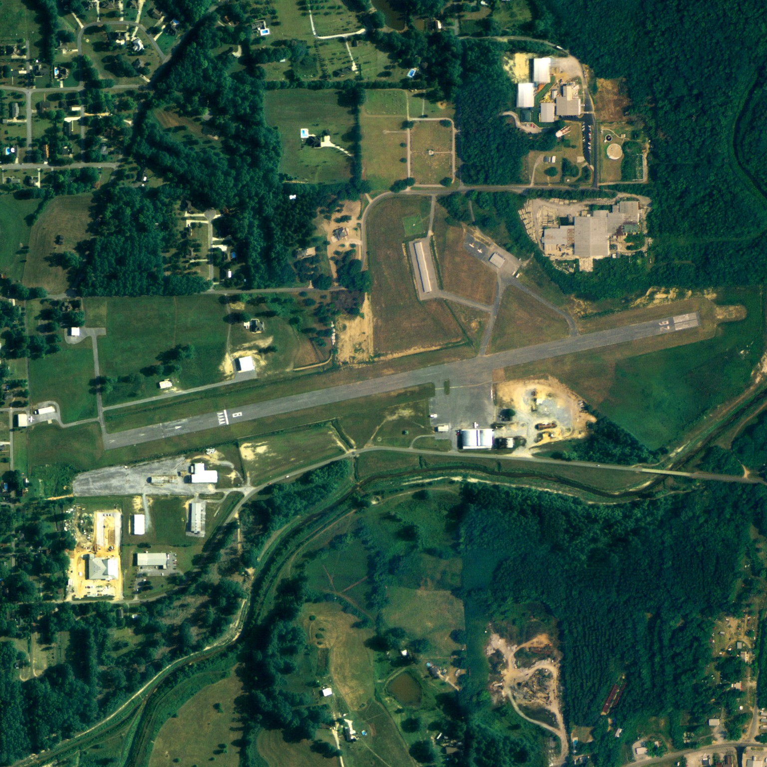 Aerial image of Gragg-Wade Field, an airport in Clanton, Alabama, United States